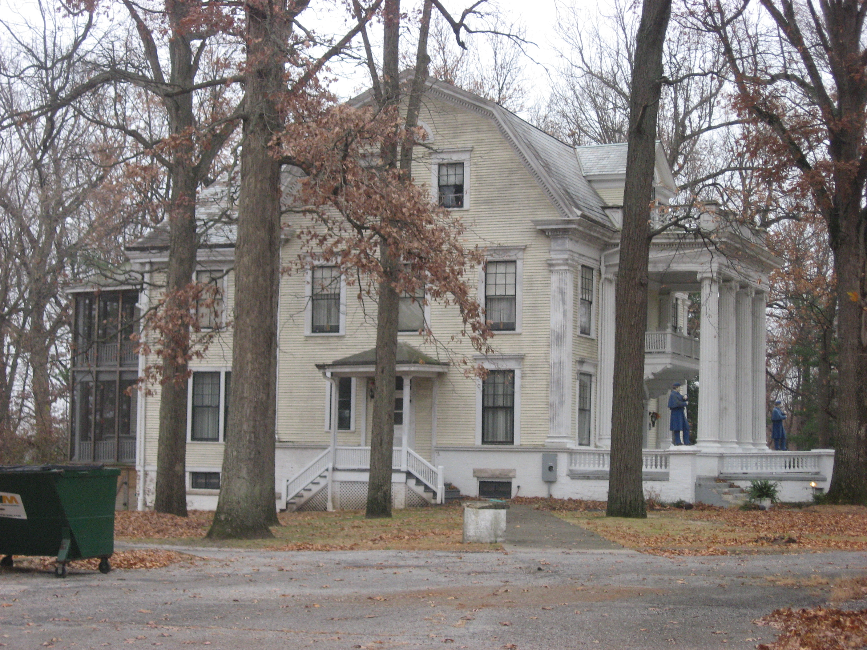 A house at the Indiana State Soldiers Home, located off River Road north of Lafayette in far eastern Wabash Township, Tippecanoe County, Indiana, United States. Built in the late nineteenth century as a home for veterans of the American Civil War, the State Soldiers Home is a historic district that is listed on the National Register of Historic Places.